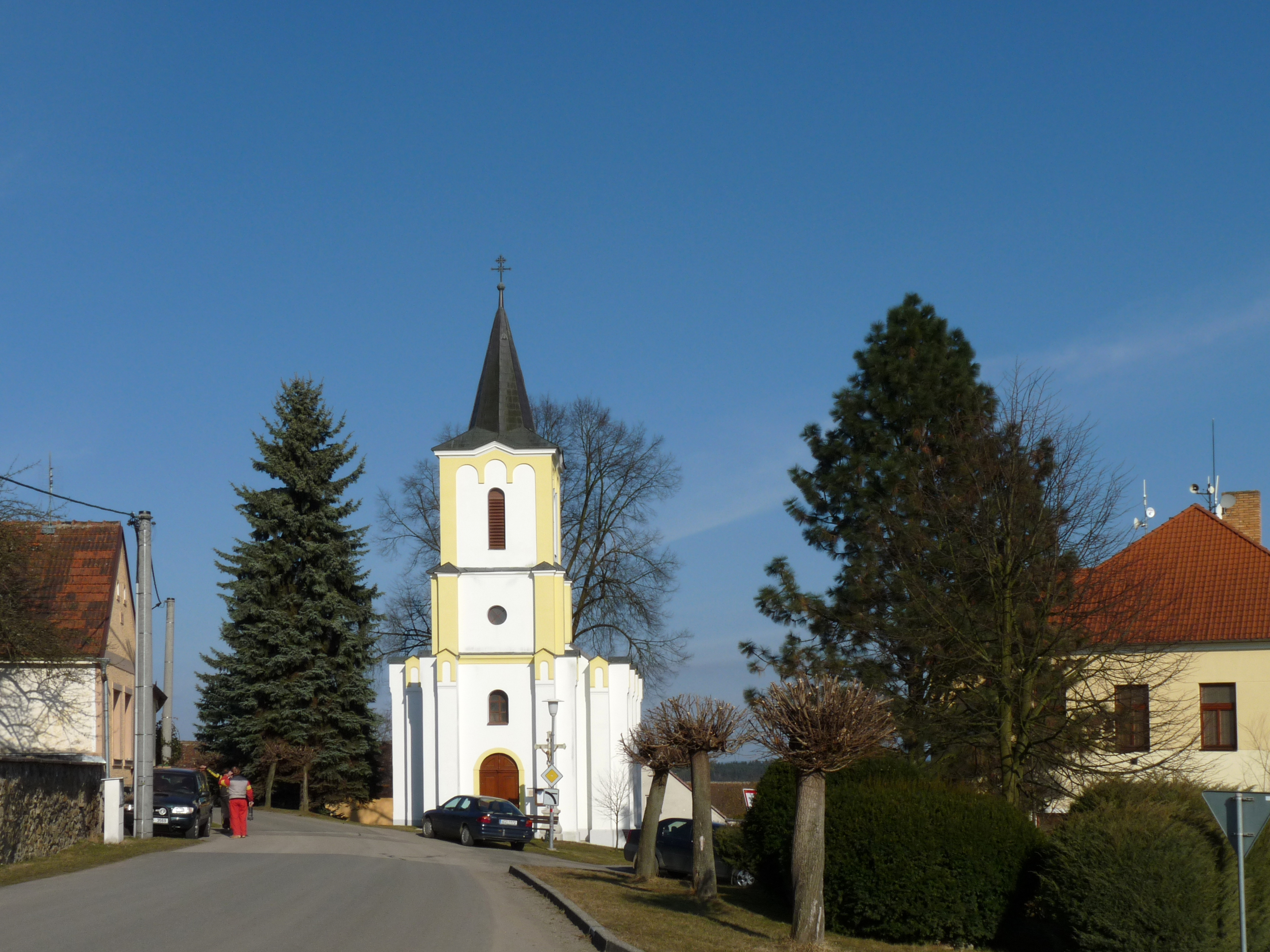 Church of the Assumption of the Virgin Mary in the village of Řípec, Tábor District, South Bohemia, Czech Republic.